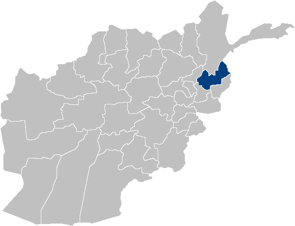 Location map for Nurestan Province in Afghanistan. Original map source: Image:Afghanistan_provinces_blank.png